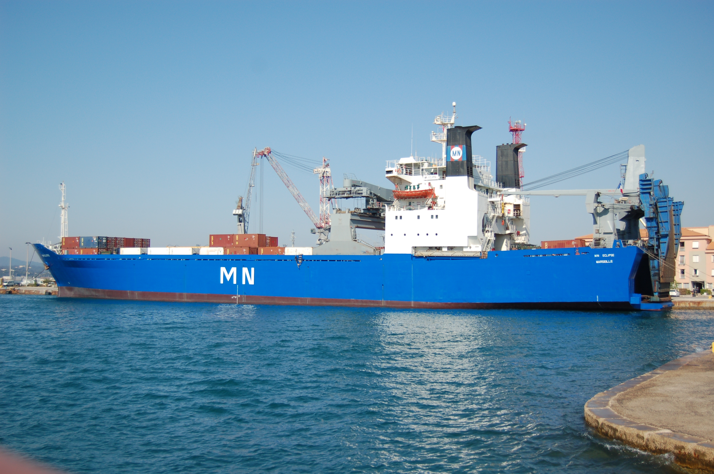 MN Eclipse, Porte conteneurs en port de Toulon IMO Number: 7702528 MMSI Number: 228070000 Callsign: FGCQ Length: 146 m Beam: 22 m